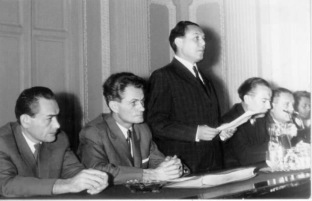 György Ágoston is in summer schol at Szeged